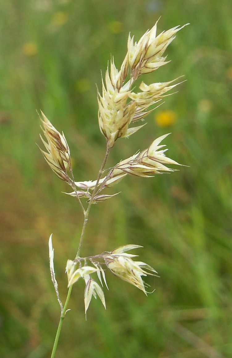 Inflorescence of Holcus mollis. Goleniow, NW Poland